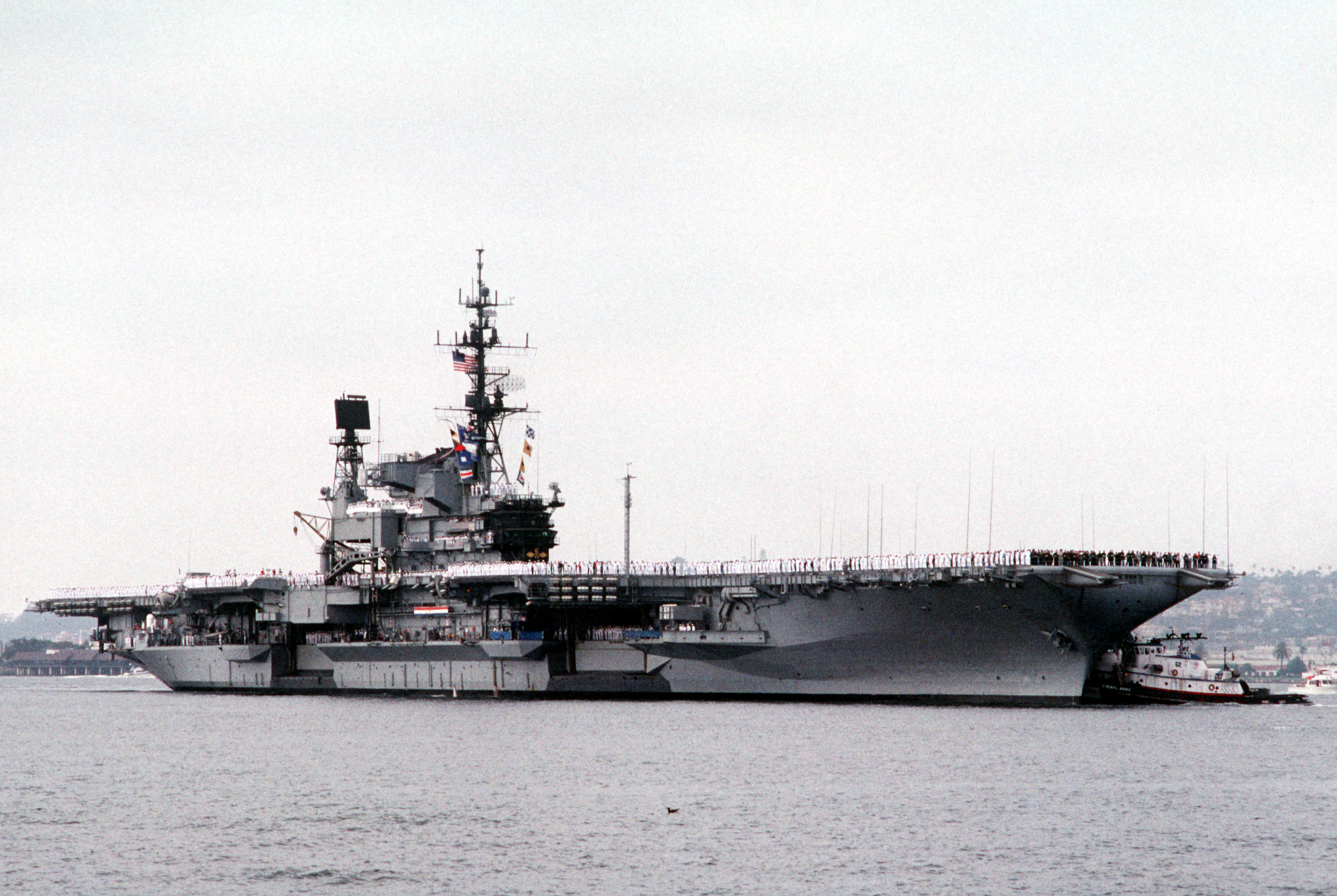 Crew members man the rails aboard the aircraft carrier USS MIDWAY (CV 41) as it arrives at the naval station. The MIDWAY, which has been based in Japan since October 1973, has come to North Island to prepare for decommissioning.